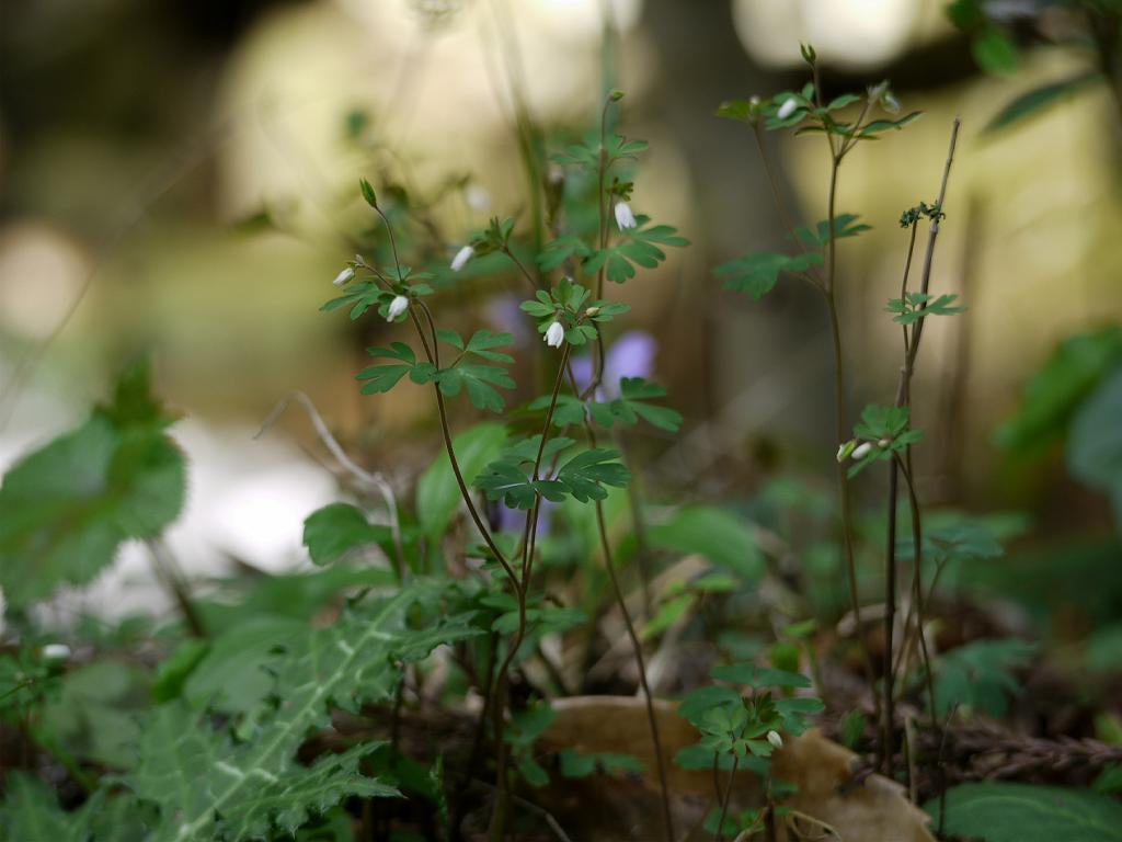 Semiaquilegia adoxoides(Ranunculaceae)